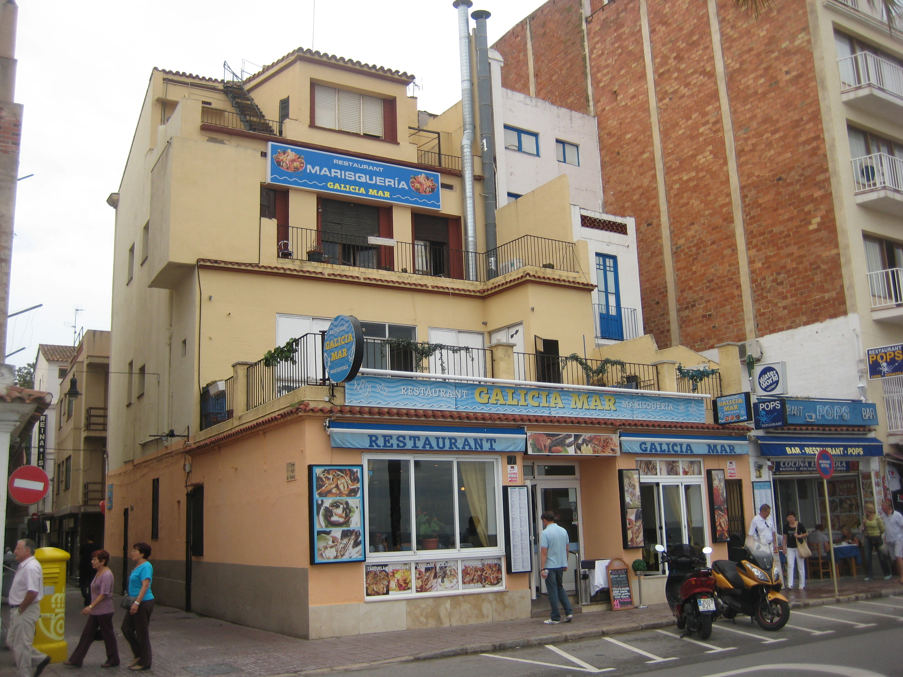 Fish restaurant on quay, Lloret de Mar, Costa Brava, Spain.